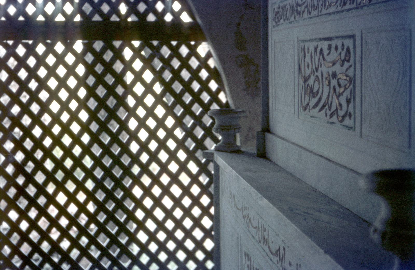 Larnaca, Cyprus. Hala Sultan’s Tomb, Hala Sultan Tekke (Mosque of Umm Haram), 10 Aug 1972.